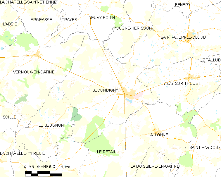 Map of French municipality Secondigny